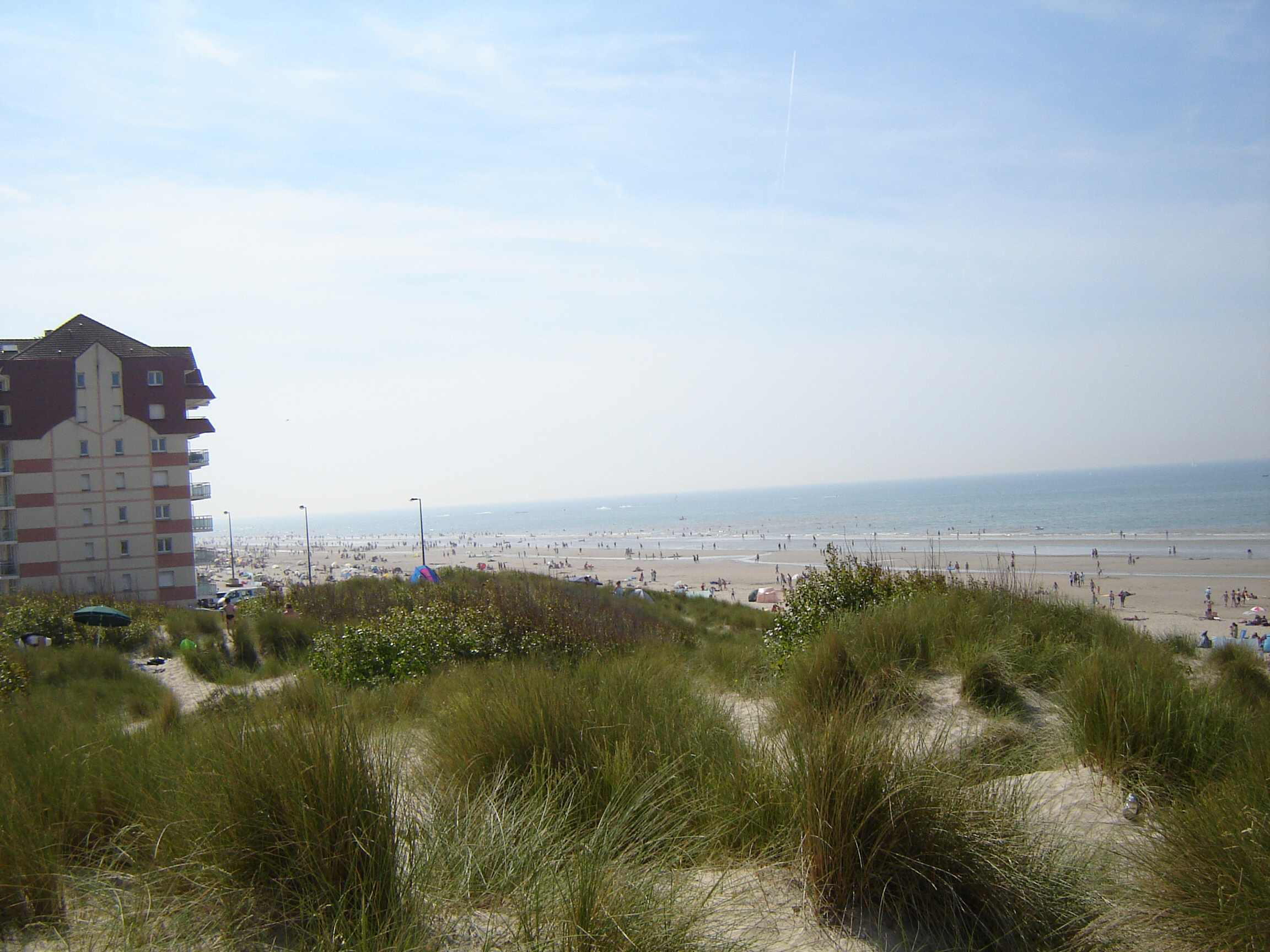 Beach and Dunes, Bray-Dunes, Nord, France